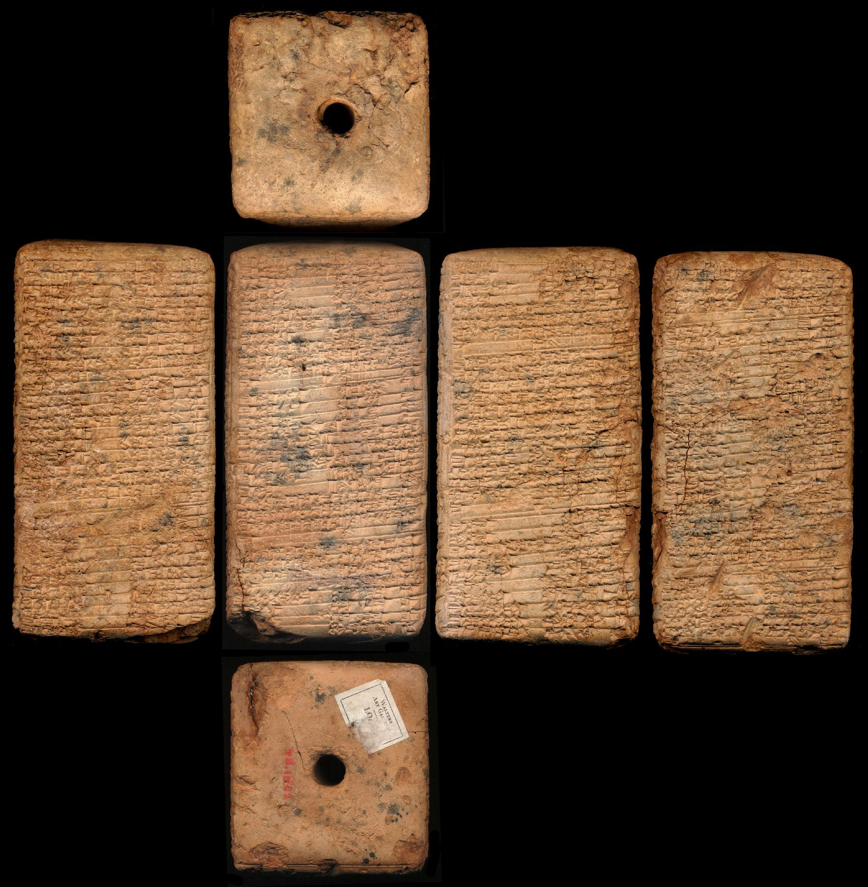 This tablet (a square cylinder with center hole), inscribed on all four sides, is one of the best preserved copies of the Sumerian hymn to the temple at Kesh. The popular hymn, written in praise of the temple built for the mother-goddess Nintu in the city of Kesh in southern Mesopotamia, describes the temple in both physical and heavenly terms.